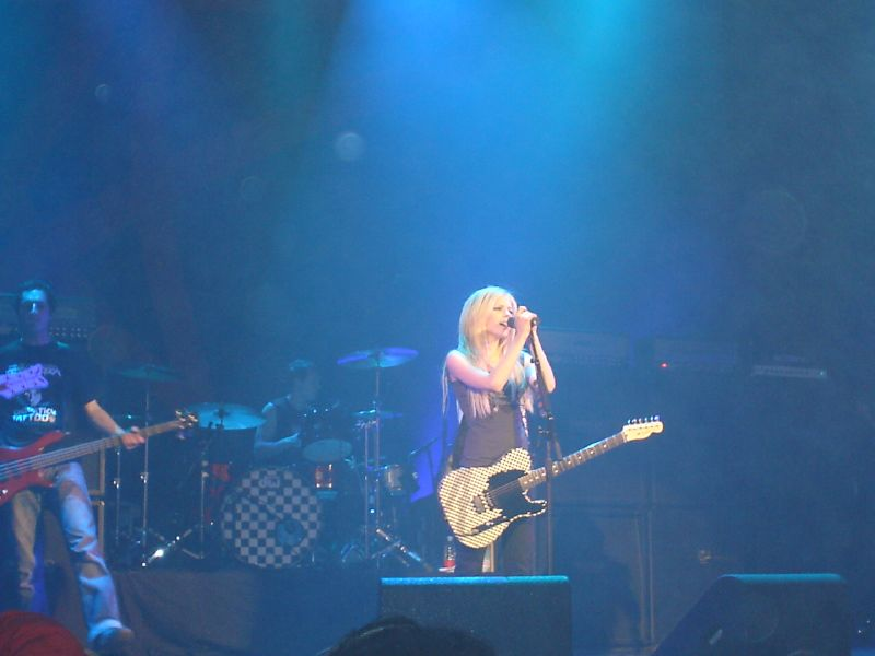 Avril Lavigne having a concert in Strathclyde, Scotland